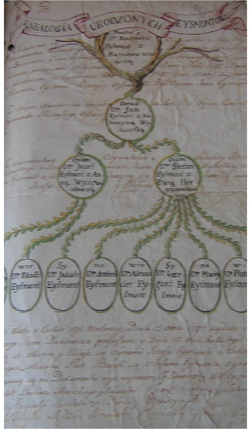 Genealogy of the Eysymont House